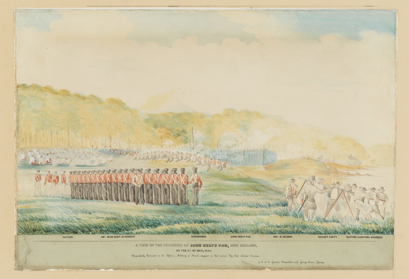 A view of the storming of John Heki's pah, New Zealand, on the 8th. of May 1845, by unknown artist but very similar to one by Cyprian Bridge, watercolour, State Library of New South Wales V* / NZ Wars / 4